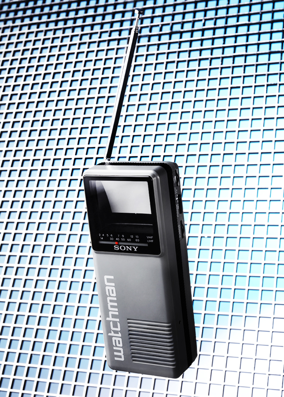 Sony Watchman TV FD-10A, 1987.